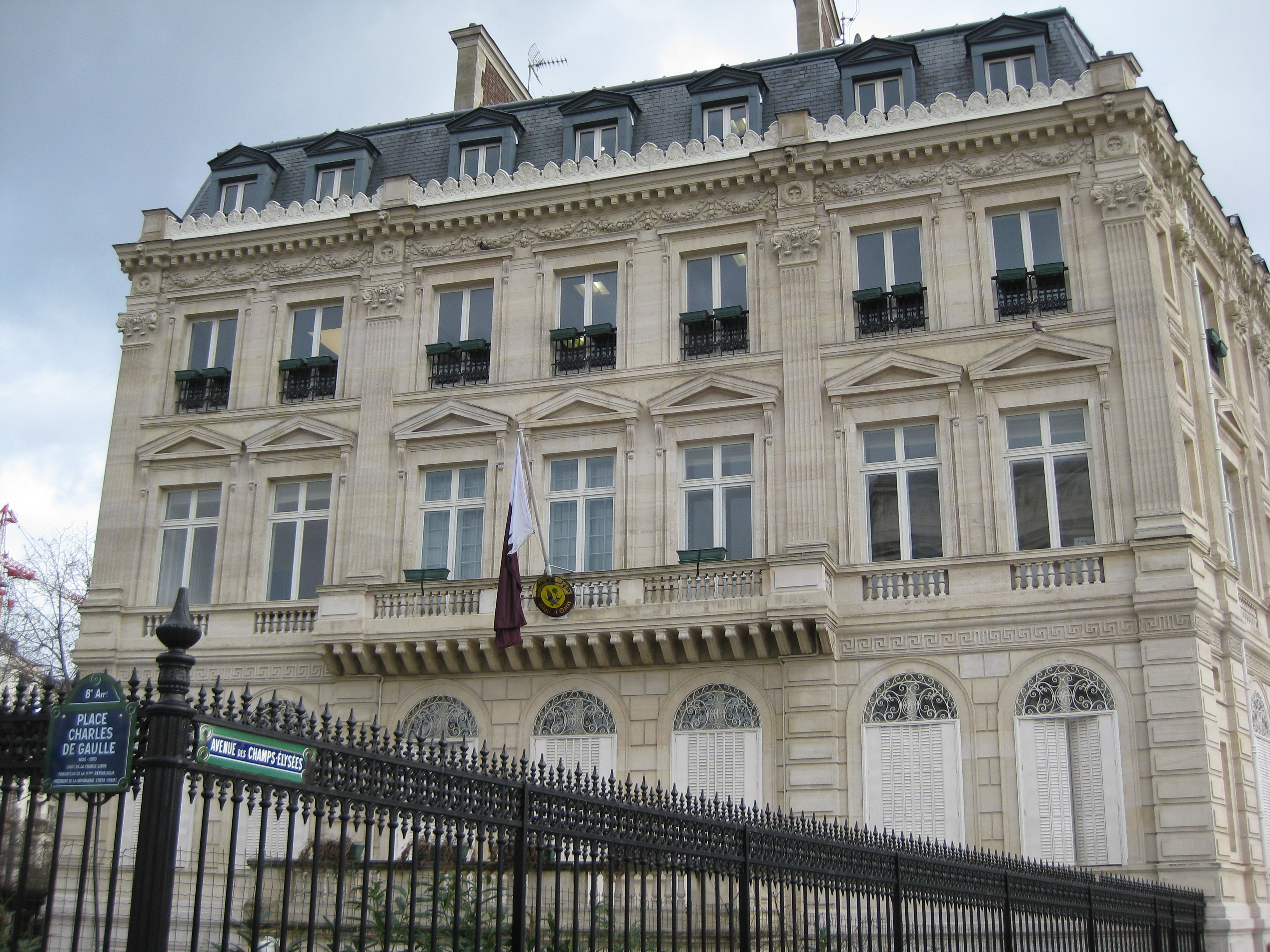 Qatari Embassy, Paris, France.